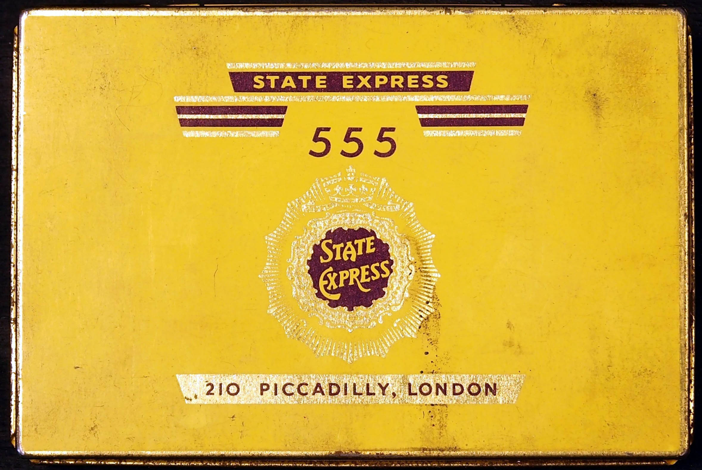 Old product not sold anymore!